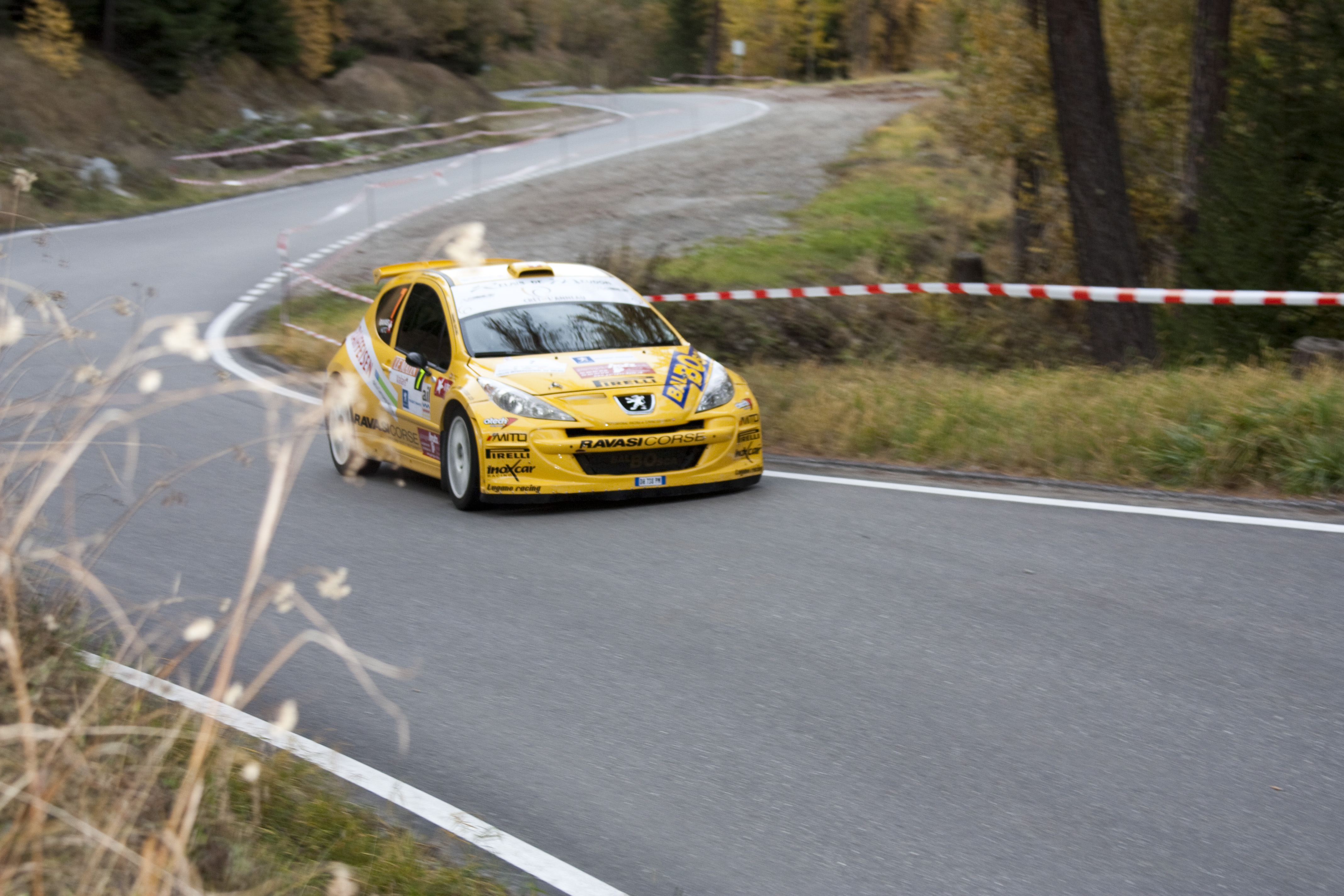 Picture from Rallye Car in Switzerland